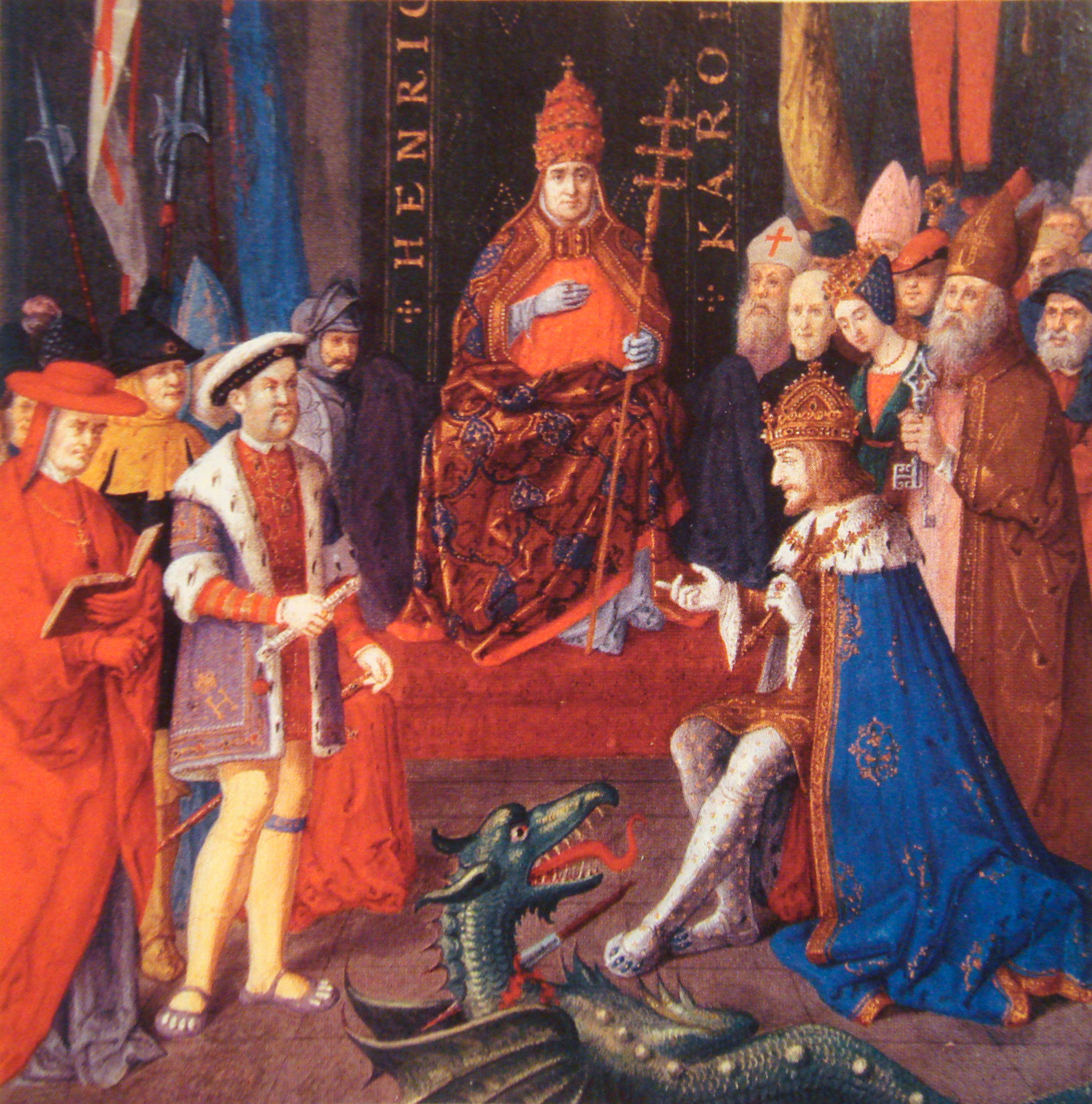 Henry VIII with Charles V and Pope Leon X circa 1520.